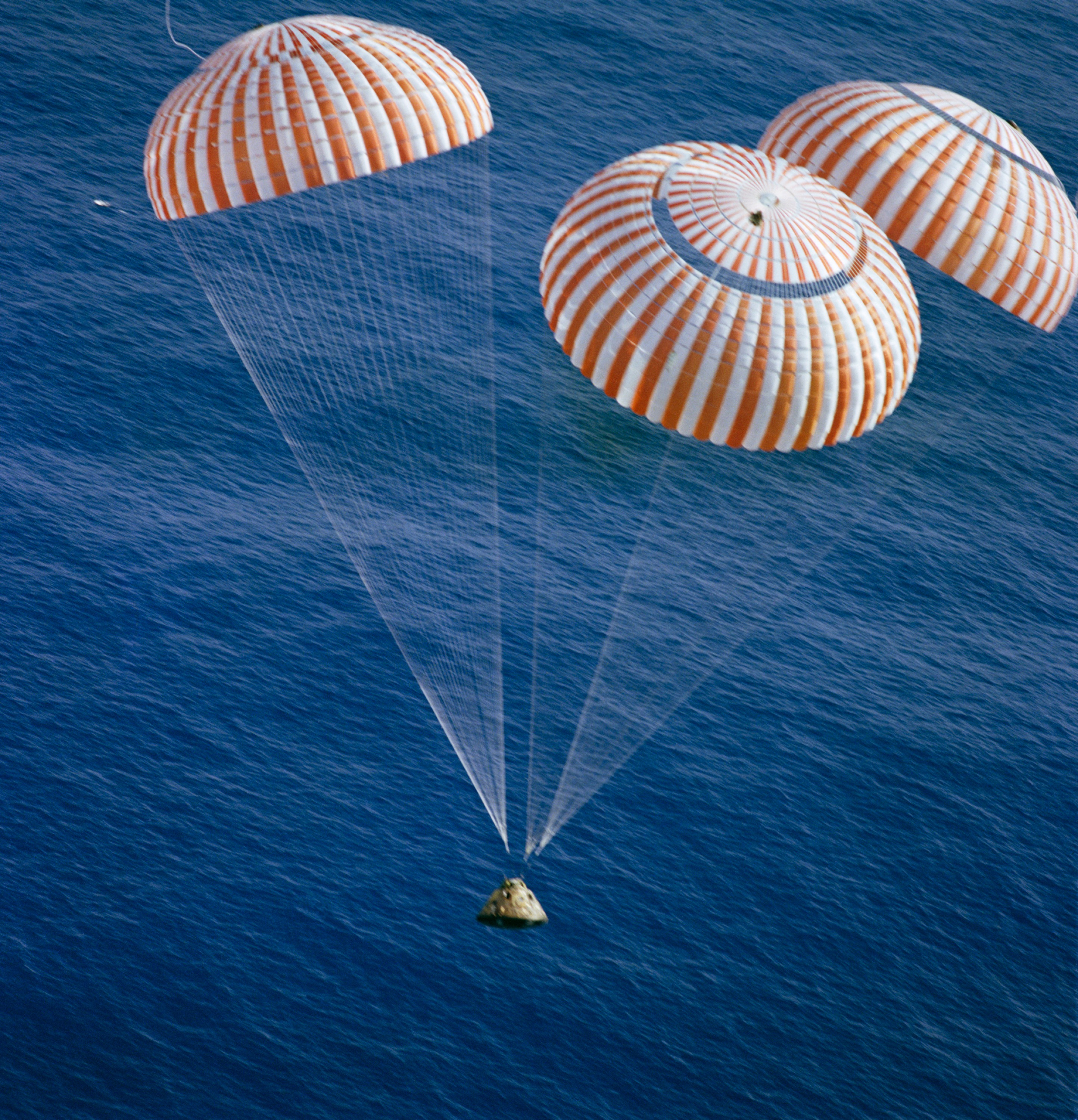 The Apollo 17 Command Module (CM), with astronauts Eugene A. Cernan, Ronald E. Evans and Harrison H. Schmitt aboard, nears splashdown in the South Pacific Ocean to successfully concludes the final lunar landing mission in NASA's Apollo program. This overhead view was taken from a recovery aircraft seconds before the spacecraft hit the water. The splashdown occurred at 304:31:59 ground elapsed time, 1:24:59 p.m. (CST) Dec. 19, 1972, at coordinates of 166 degrees 8 minutes west longitude and 27 degrees 53 minutes south latitude, about 350 nautical miles southeast of the Samoan Islands. The splashdown was only .8 miles from the target point. Later, the three crewmen were picked up by a helicopter from the prime recovery ship, USS Ticonderoga.